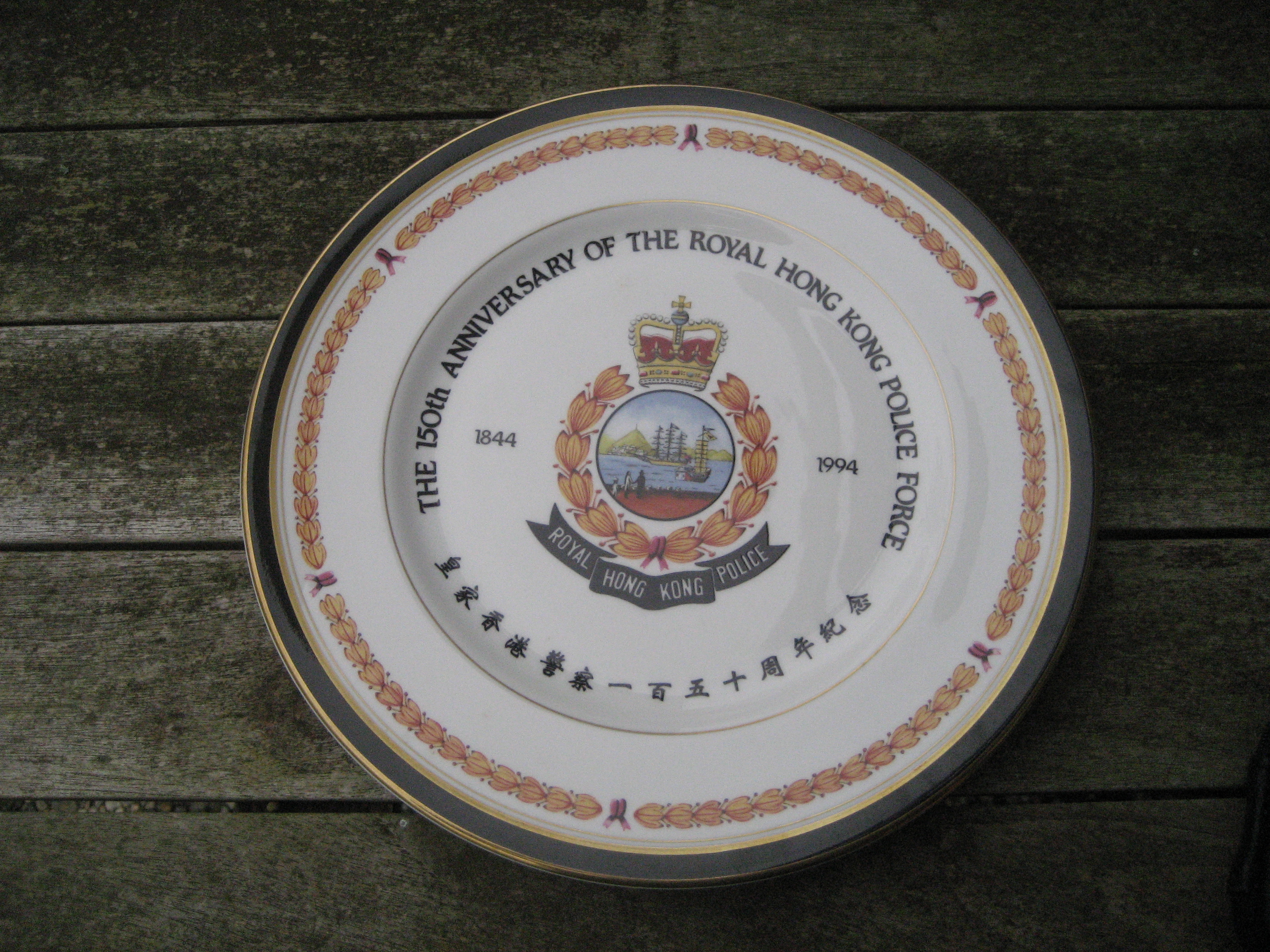 Plate Royal Worcester Fine Bone China. 150th Anniversary of the Royal Hong Kong Police Force, 1844-1994. Made in England. Limited Edition